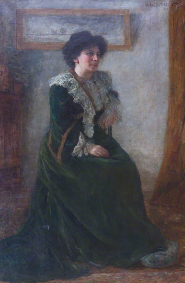 Portrait of Hertha Ayrton, Girton College, University of Cambridge; Supplied by The Public Catalogue Foundation